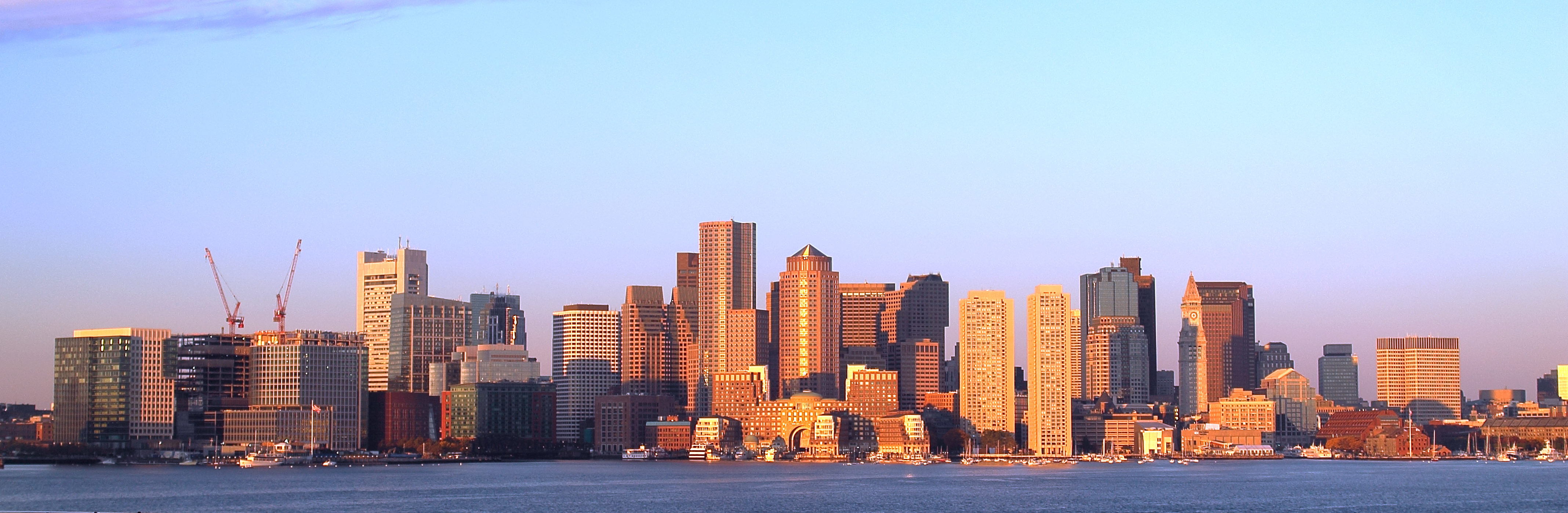 Downtown Boston from Logan International Airport